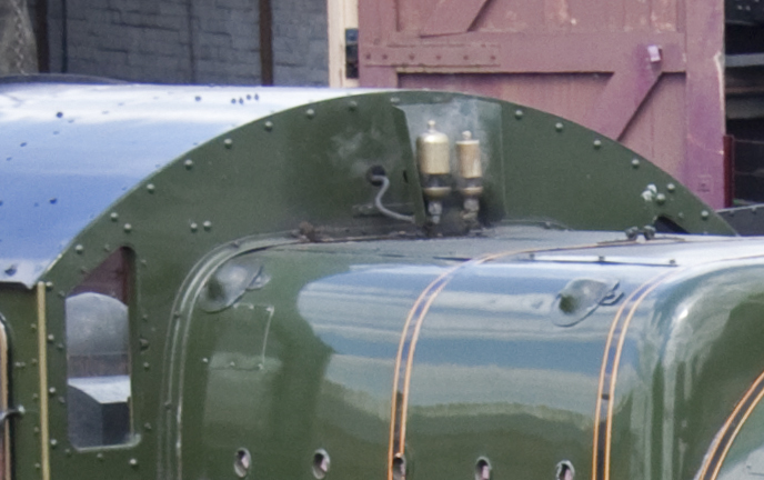 Great Western Railway twin steam whistles, photographed on 7827 Lydham Manor